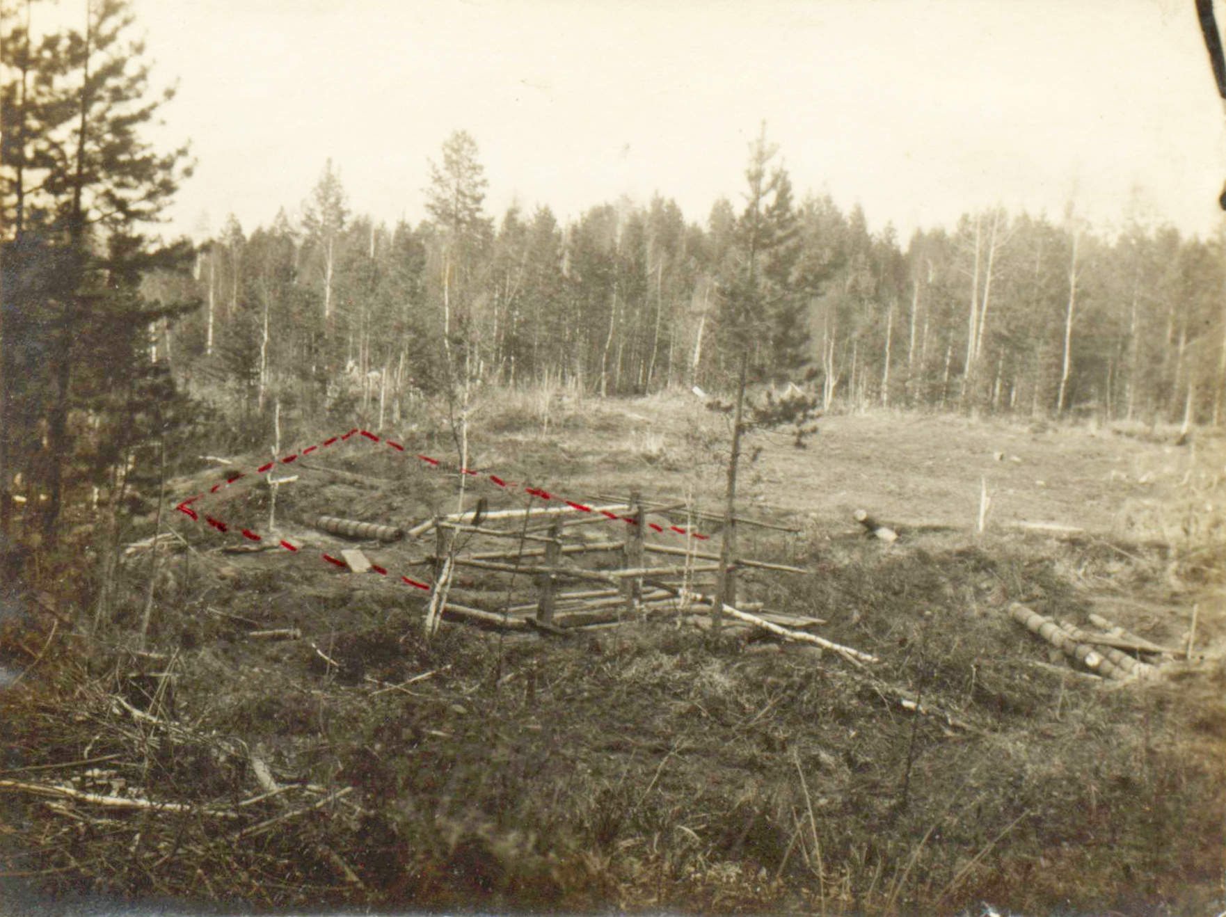 View of the open mine